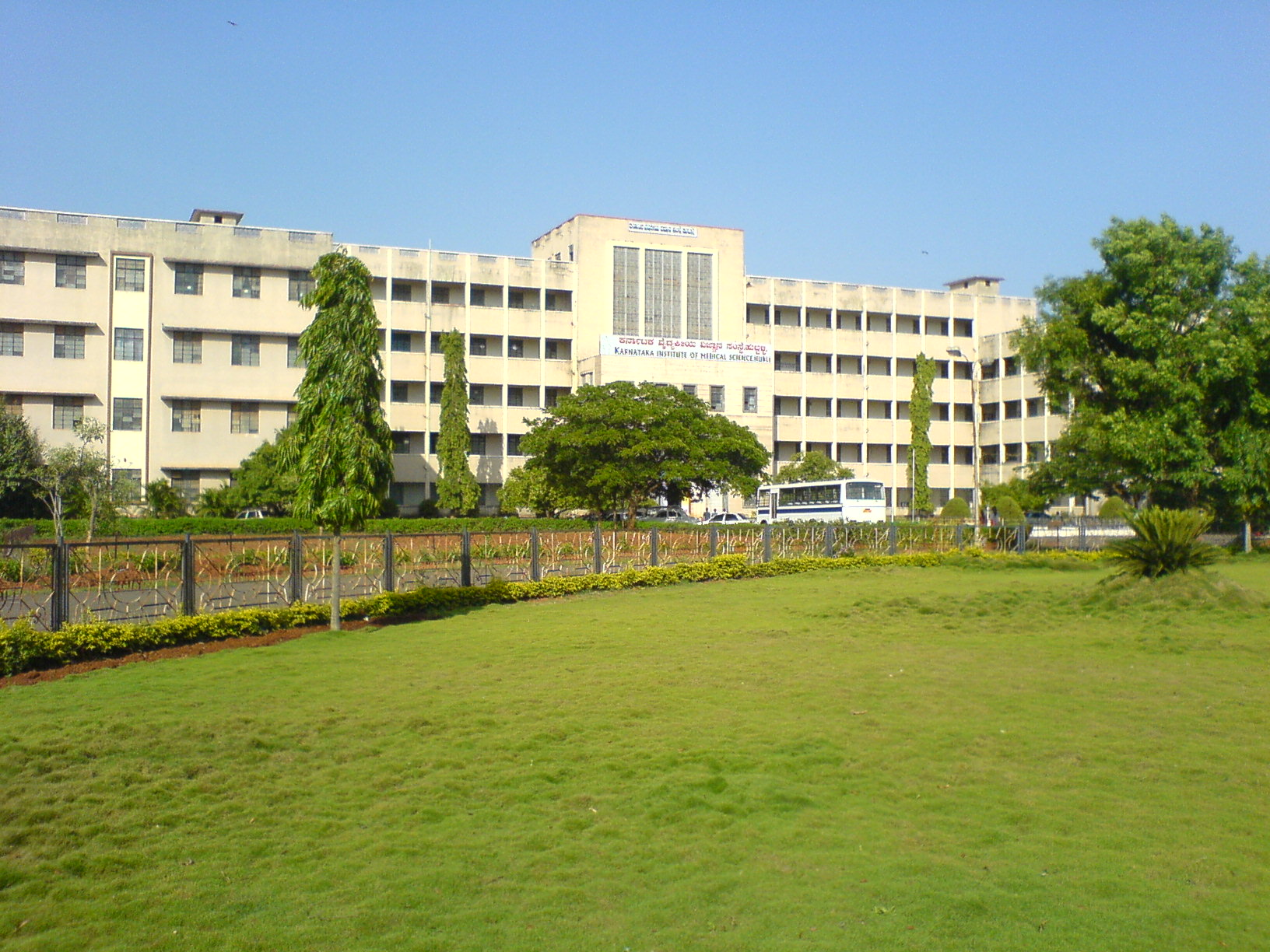 A view of Karnataka Institute of Medical Sciences, Hubli from Archana ladies hostel main entrance.